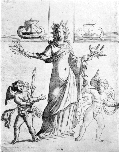 Personification of the city of Alexandria as in "Chronography of 354", 354 AD